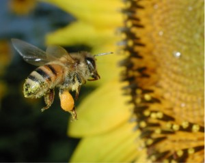 Honeybee pollen basket. Image taken by me, released under GFDL, Pollinator 02:55, 21 December 2005 (UTC)